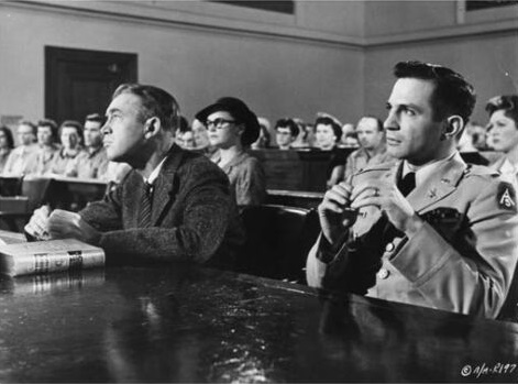 James Stewart & Ben Gazzara in American courtroom drama crime film Anatomy of a Murder (1959). See also film still. No copyright notice.